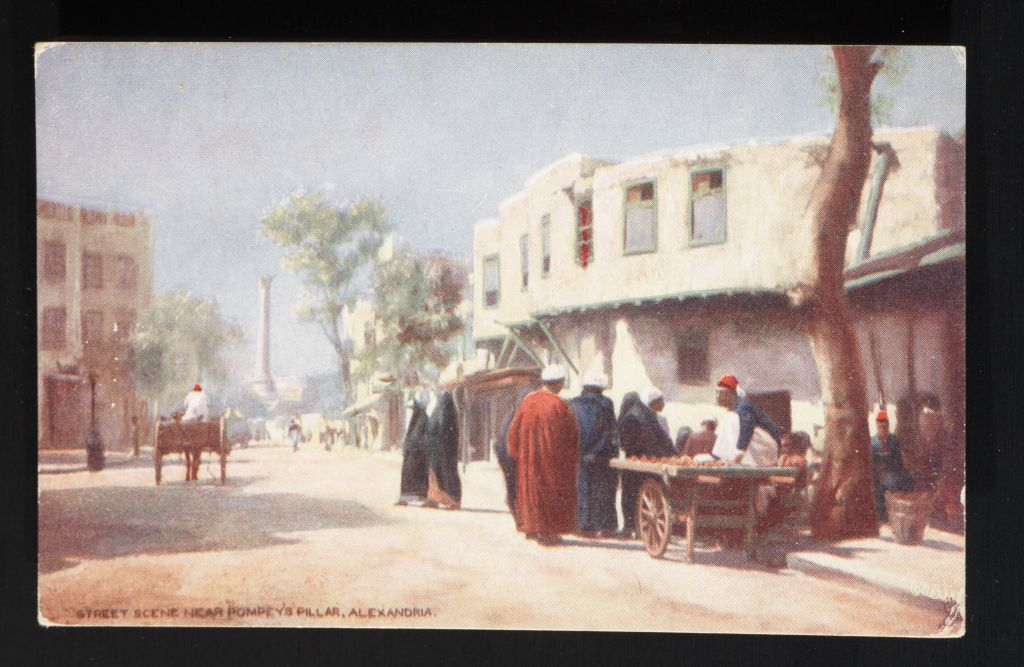 Merchant selling fruits in foreground, people walking across and down a dirt street